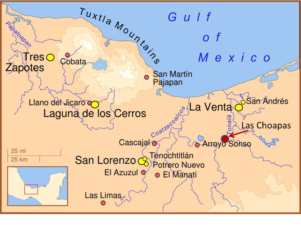 A map of the Olmec heartland. The yellow sites are known villages and towns. The smaller red dots mark locations where artifacts or art have been found unassociated with habitation. The river courses and shorelines are modern, as are the names (we don't know the names the Olmecs used). This edited version has one site addition, Las Choapas